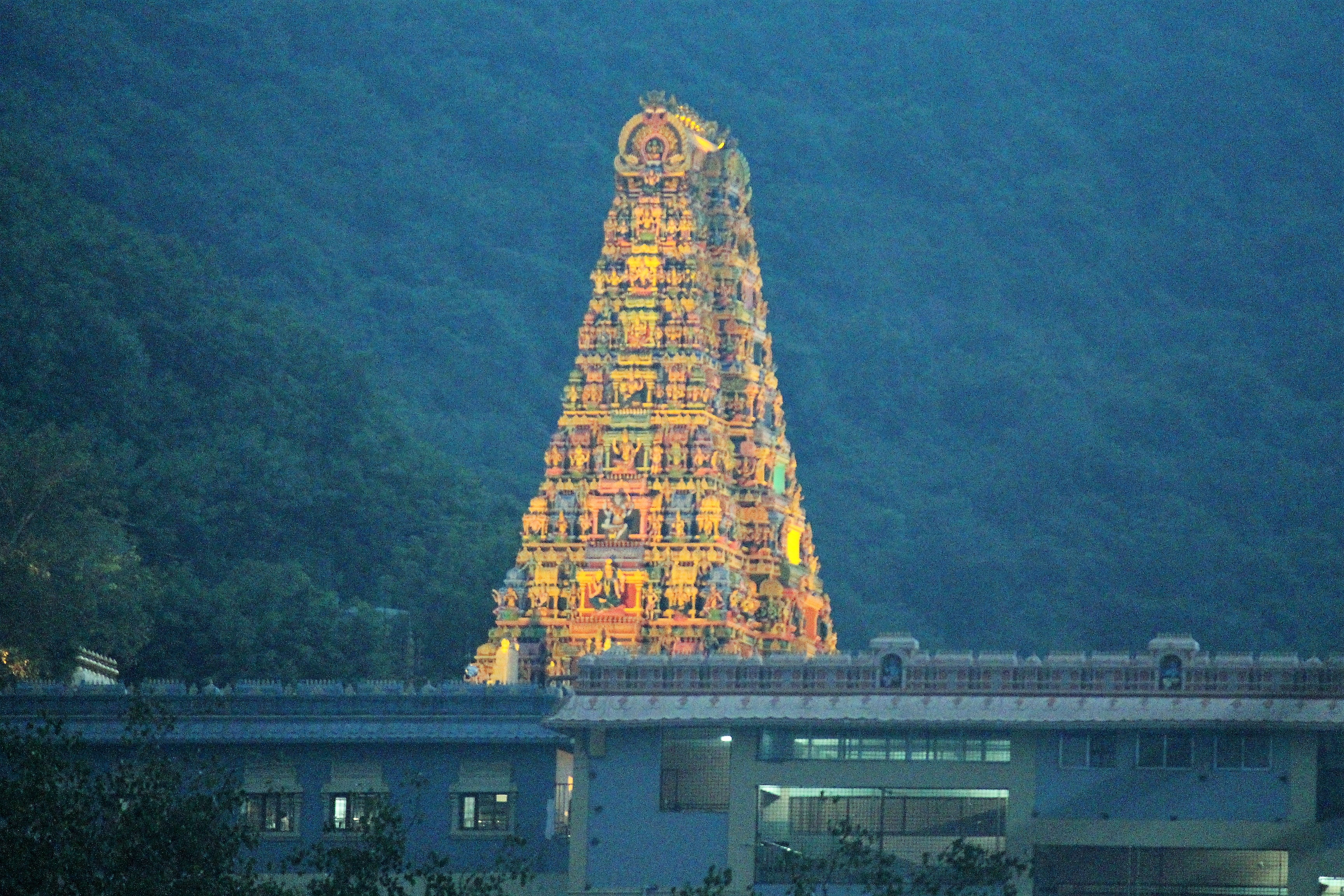 Kanaka Durga Temple is a famous hindu Temple of Goddess Durga located in Vijayawada, Andhra Pradesh. The temple is located on the Indrakeeladri hill, on the banks of Krishna River.